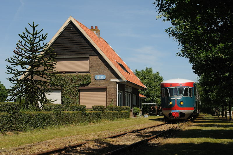 Historic train Blue Angel of the Dutch Railway museum passes the former stationbuilding of Baarland on the museum train line Goes-Borsele.